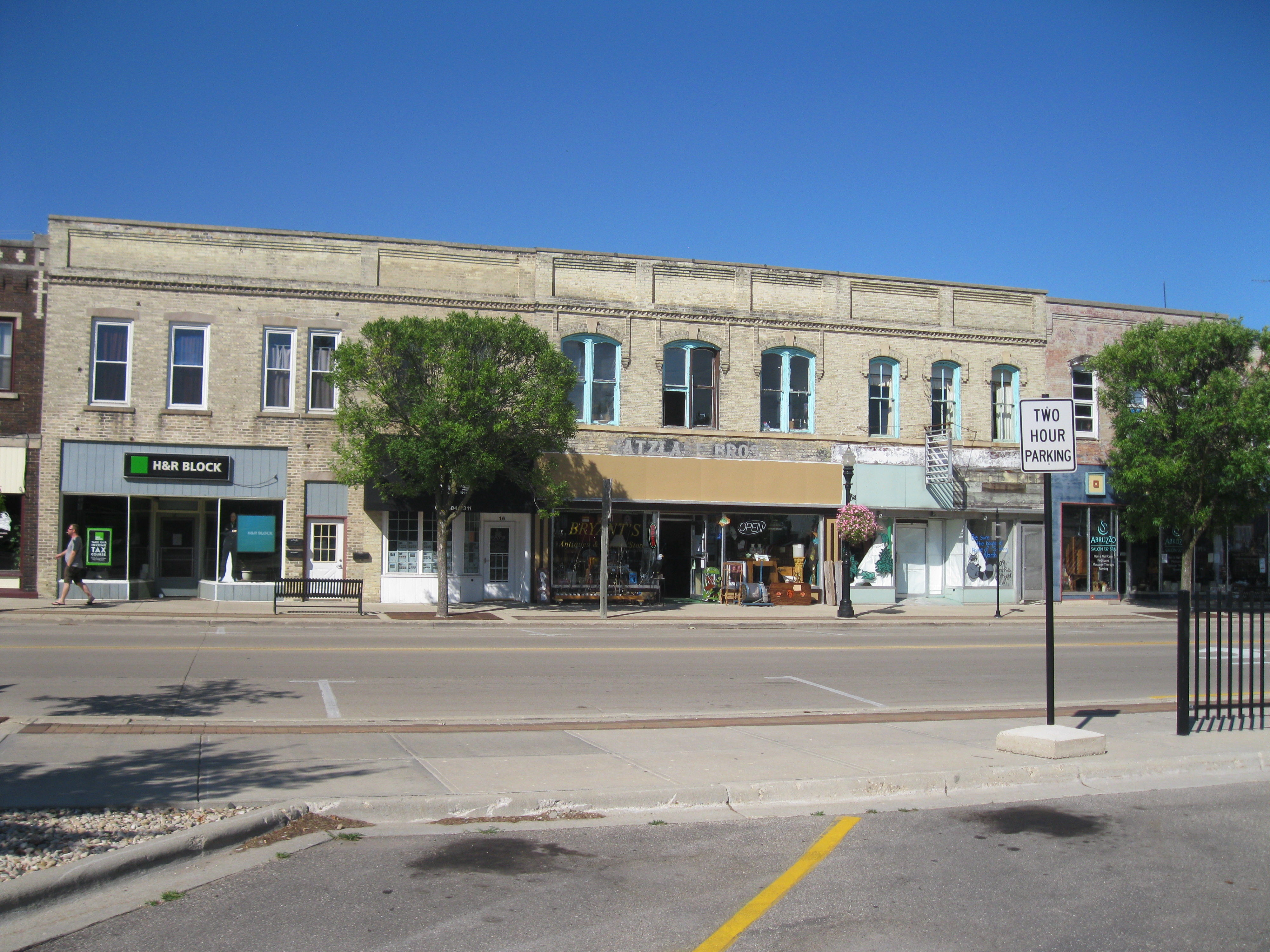 The north side of Fulton Street in the Fulton Street Historic District in Edgerton, Wisconsin.